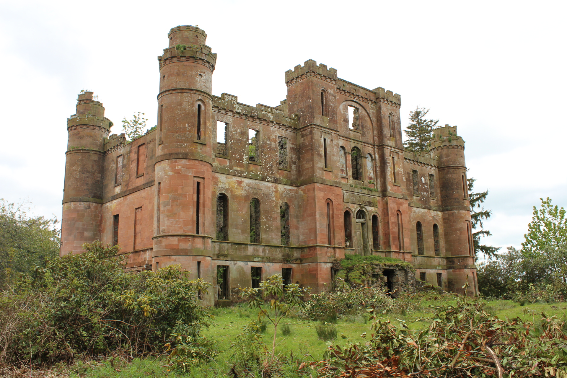 Gelston Castle